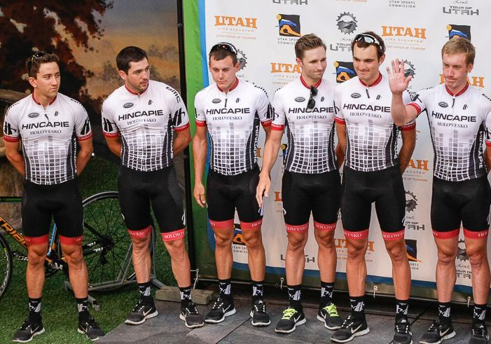 Hincapie Sportswear Development Team, at the presentation of the Tour of Utah 2013